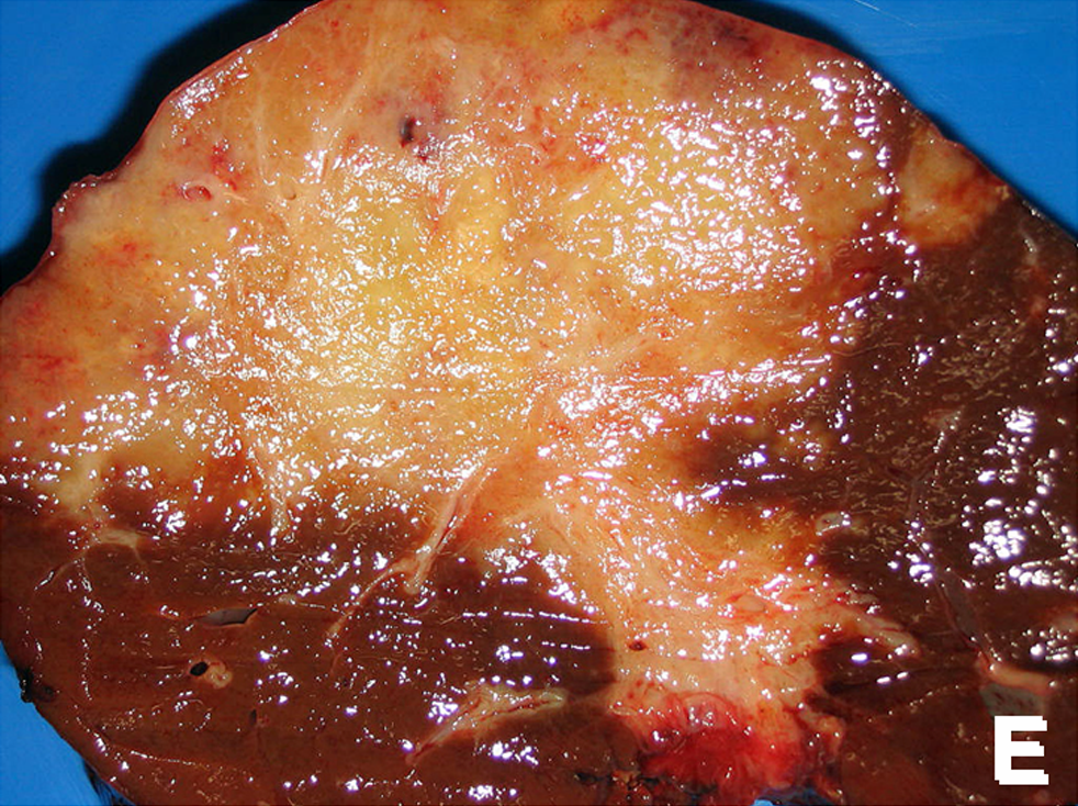 Photograph of cholangiocarcinoma in human liver from a patient from Khon Kaen, Thailand.